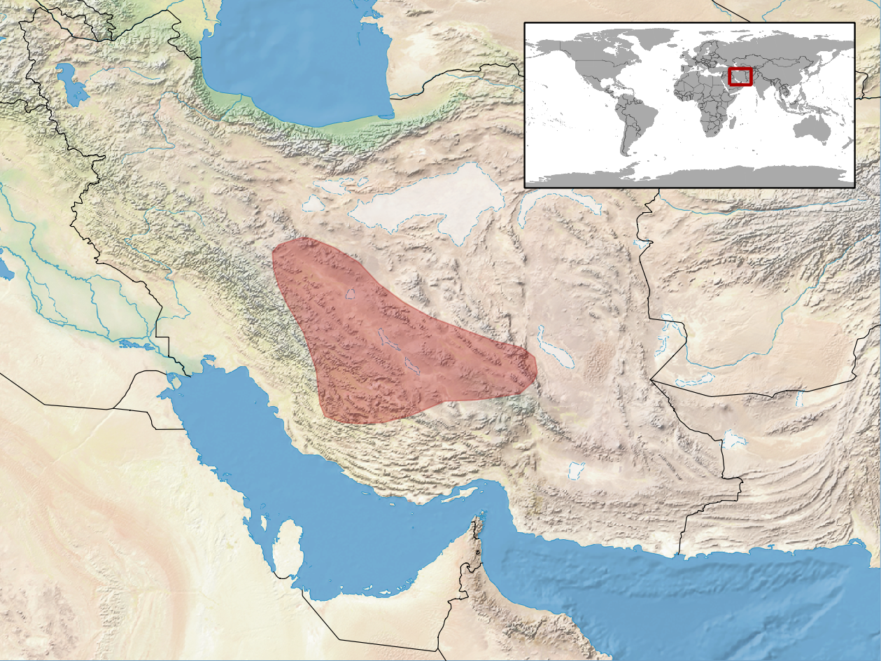 geographic distribution of Microgecko latifi syn. Tropiocolotes latifi (Native: Iran, Islamic Republic of)